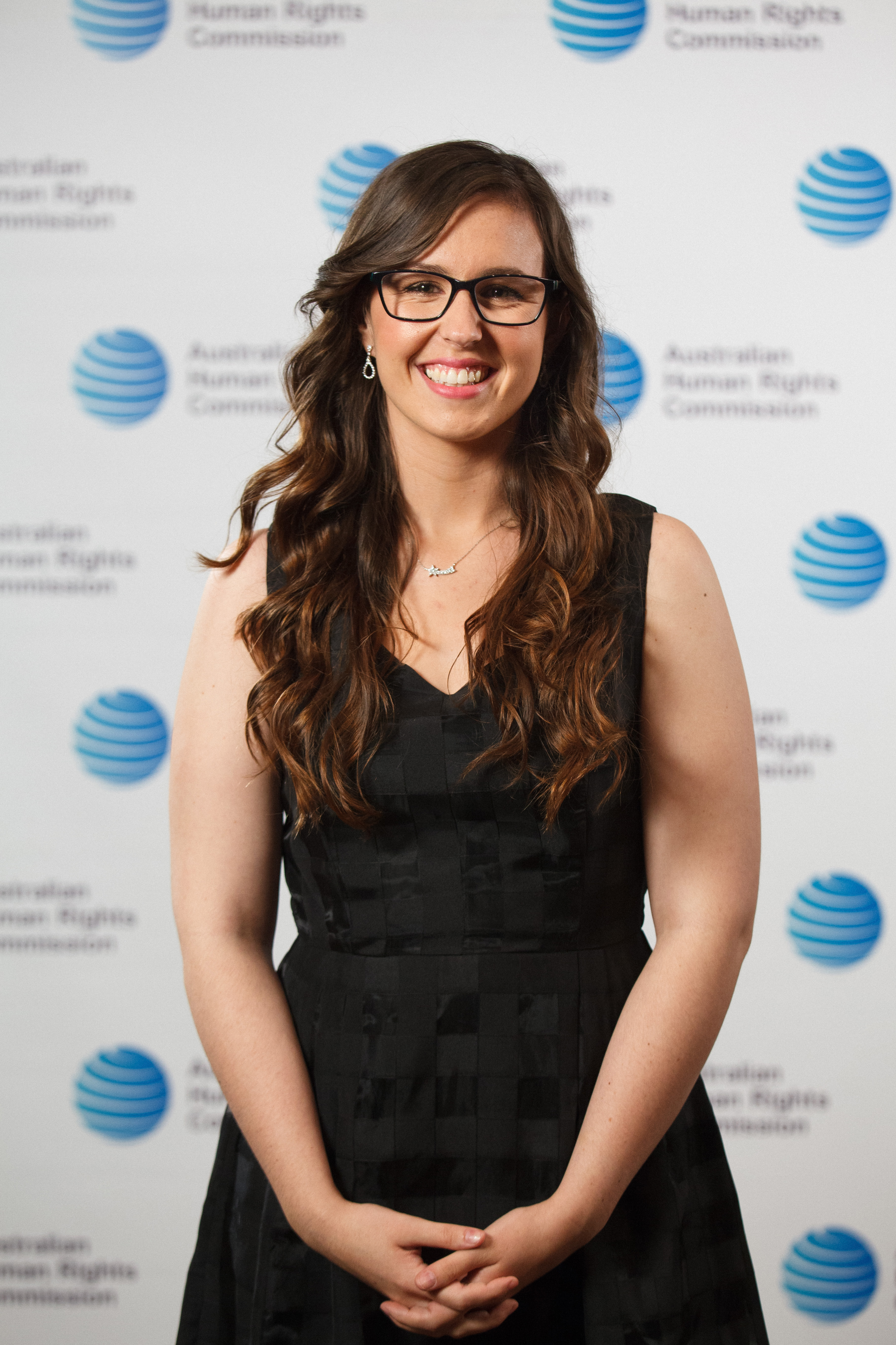 Drisana Levitzke-Gray at the 2015 Human Rights Awards